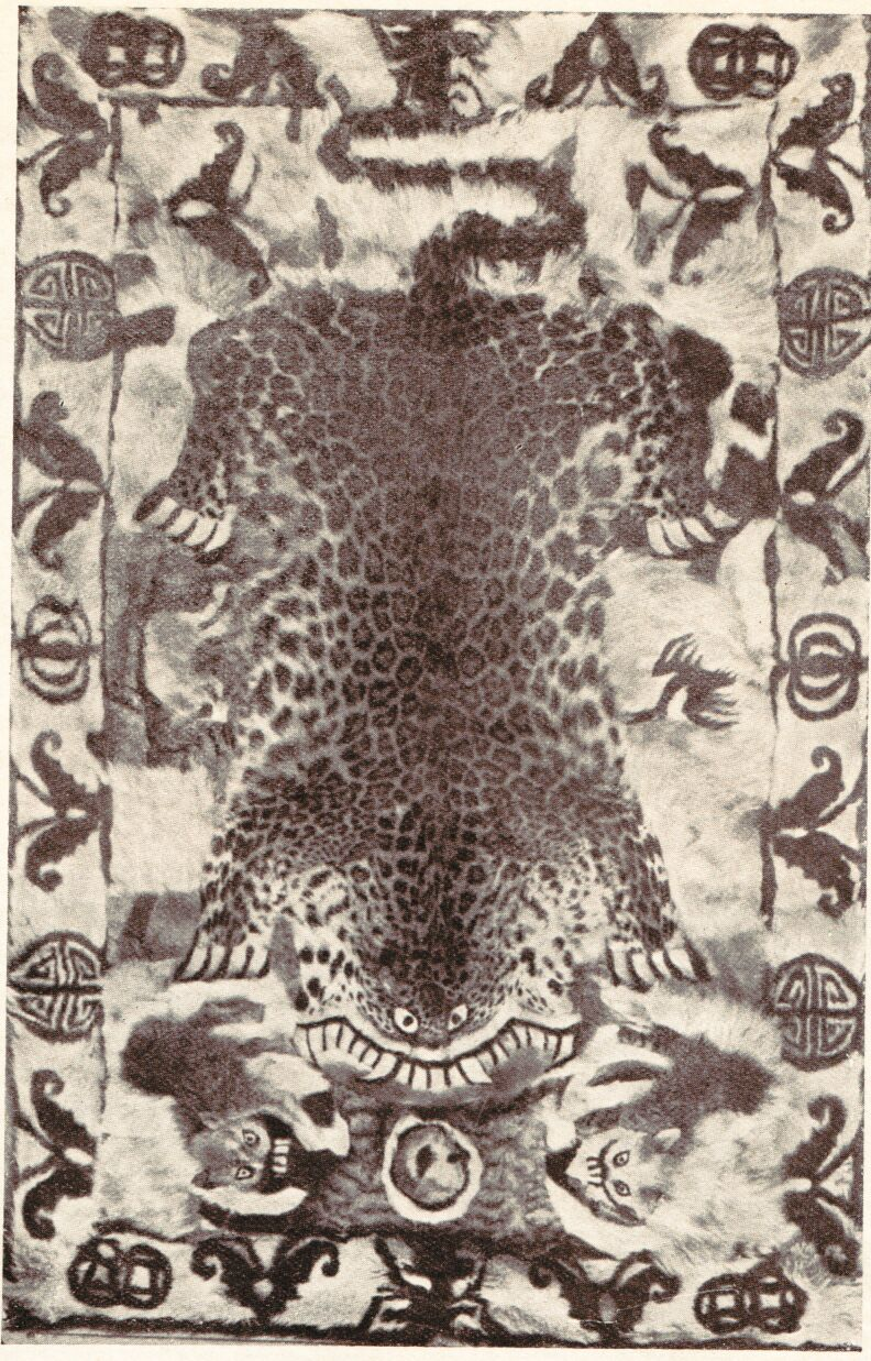 Chinese mosaic fur-carpet Teppich., chinesische Arbeit. Jedenfalls aus dem oberen Yangtsetale stammend, wo besonders derartige Arbeiten in bunten Mustern ausgeführt werden. In der Mitte ein Leopard. Der Grund ist graue Ziege auf welche ein Teil der Figuren aufgefärbt ist, während die kleineren, aus grauer Katze, eingenäht sind. Carpette. Travail chinois se falsant principaliment dans valleé du Yang-tsé. Au mileu, ou remarque un léopard. Le fond est en chévre grise sur lequel on a teinté des figures; d'autres sont faites avec du chat gris et cousues dedans. Chinese Mosaic Carpet. The carpet is an execution of the natives who dwell in the Jiang si Kiang vallee. In the centre we find a leopard. The field is made from grey goat-skins whereon are painted varios figures, the other parts are made and sewn in from grey cats-skins.